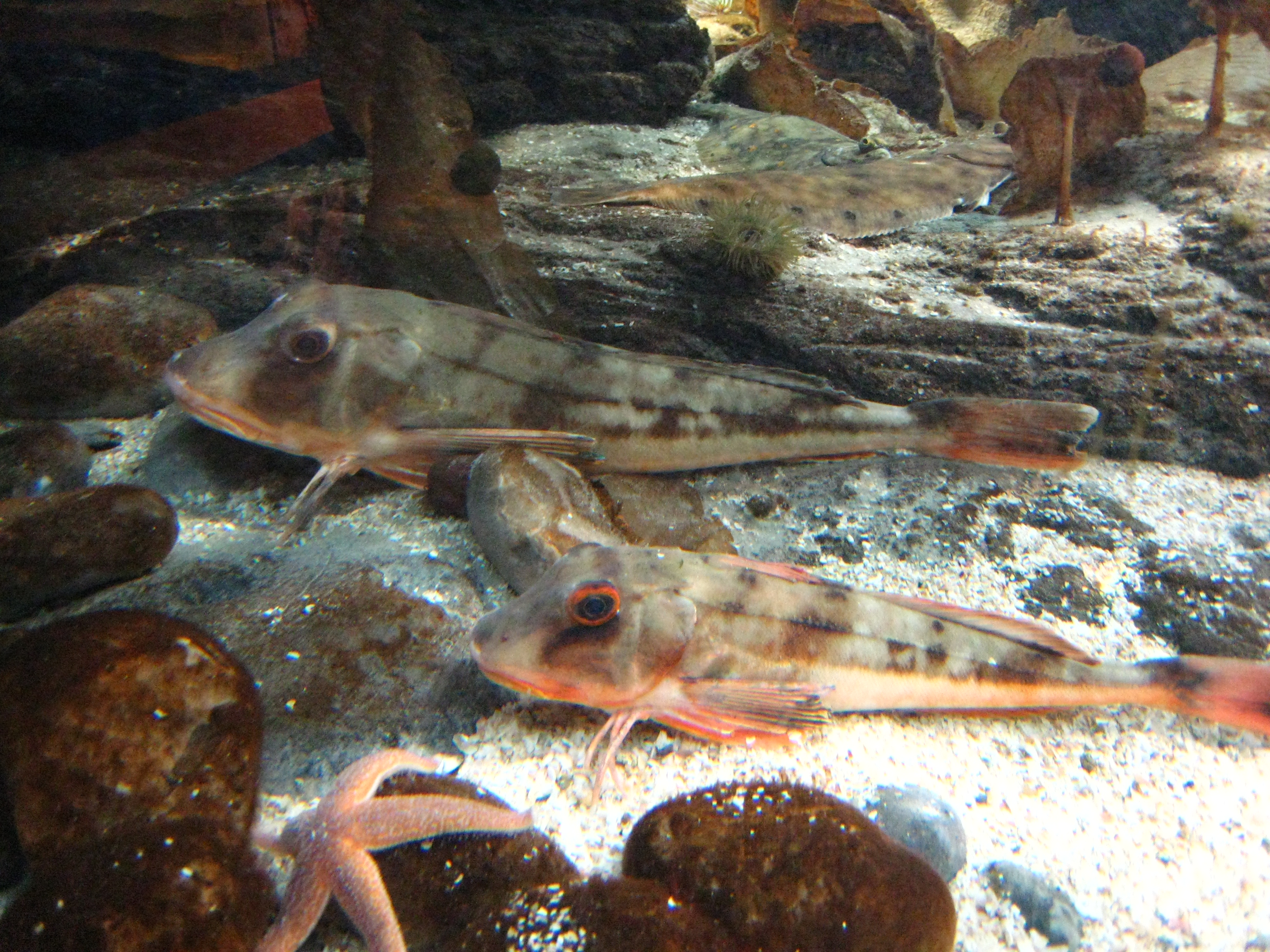 Chelidonichthys lucernus at Nausicaä, Centre National de la Mer.